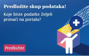 Screenshot from Open Data Portal